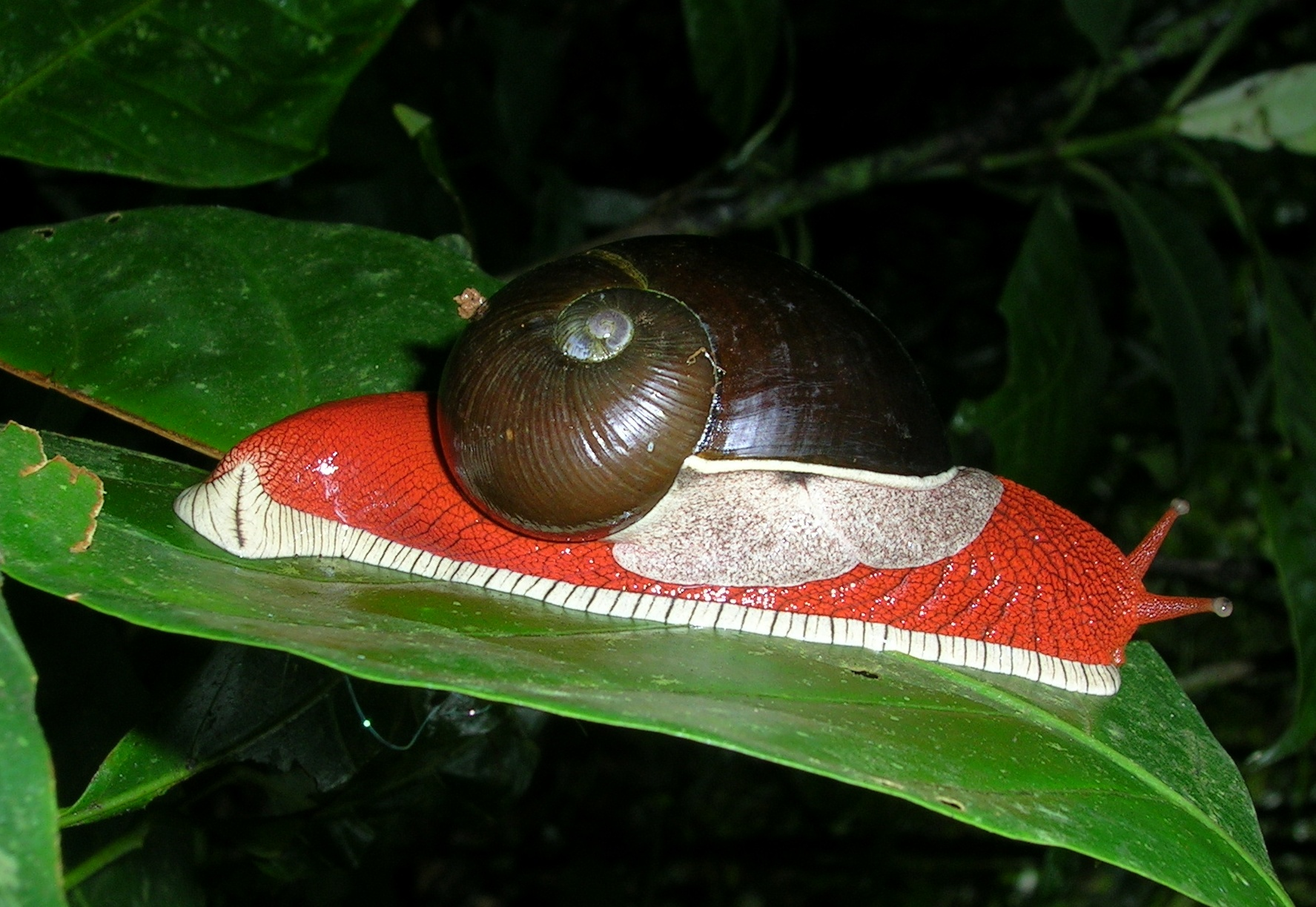 Snail Indrella ampulla (Benson), Ariophantidae, from North Wayanad, Kerala (Determination courtesy of N A Aravind, ATREE, Bangalore)